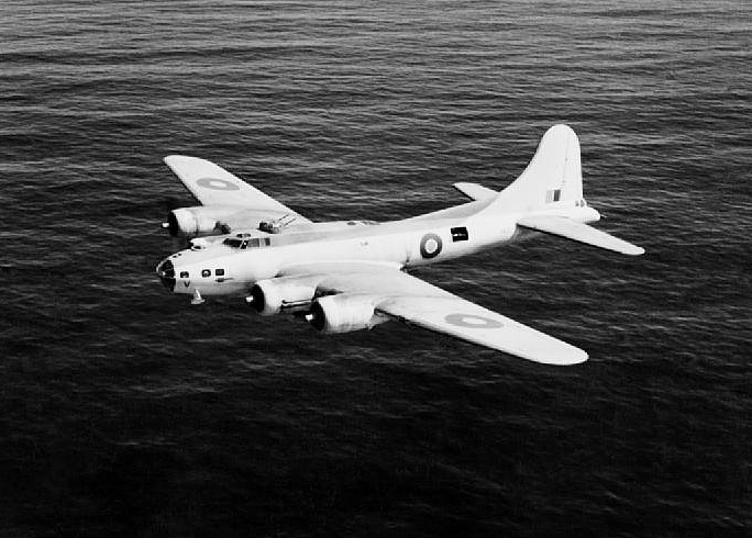 A Royal Air Force Coastal Command Boeing Fortress Mark IIA (s/n FK212, "V") of No. 220 Squadron RAF based at Benbecula in the Outer Hebrides, in flight over the Atlantic Ocean in May 1943.At 2015 hrs on 14 June 1943, FK212 (pilot F/O C.F. Callender) strafed a group of 3 outbound U-boats (U-257, U-600 and U-615) in the Bay of Biscay. The Fortress was hit and later shot down by a German Junkers Ju 88C fighter of 15./KG 40 (pilot Lt. Lothar Wolff) about 90 km north-west of Cape Ortegal at 2040 hrs. All nine crewmen were killed.